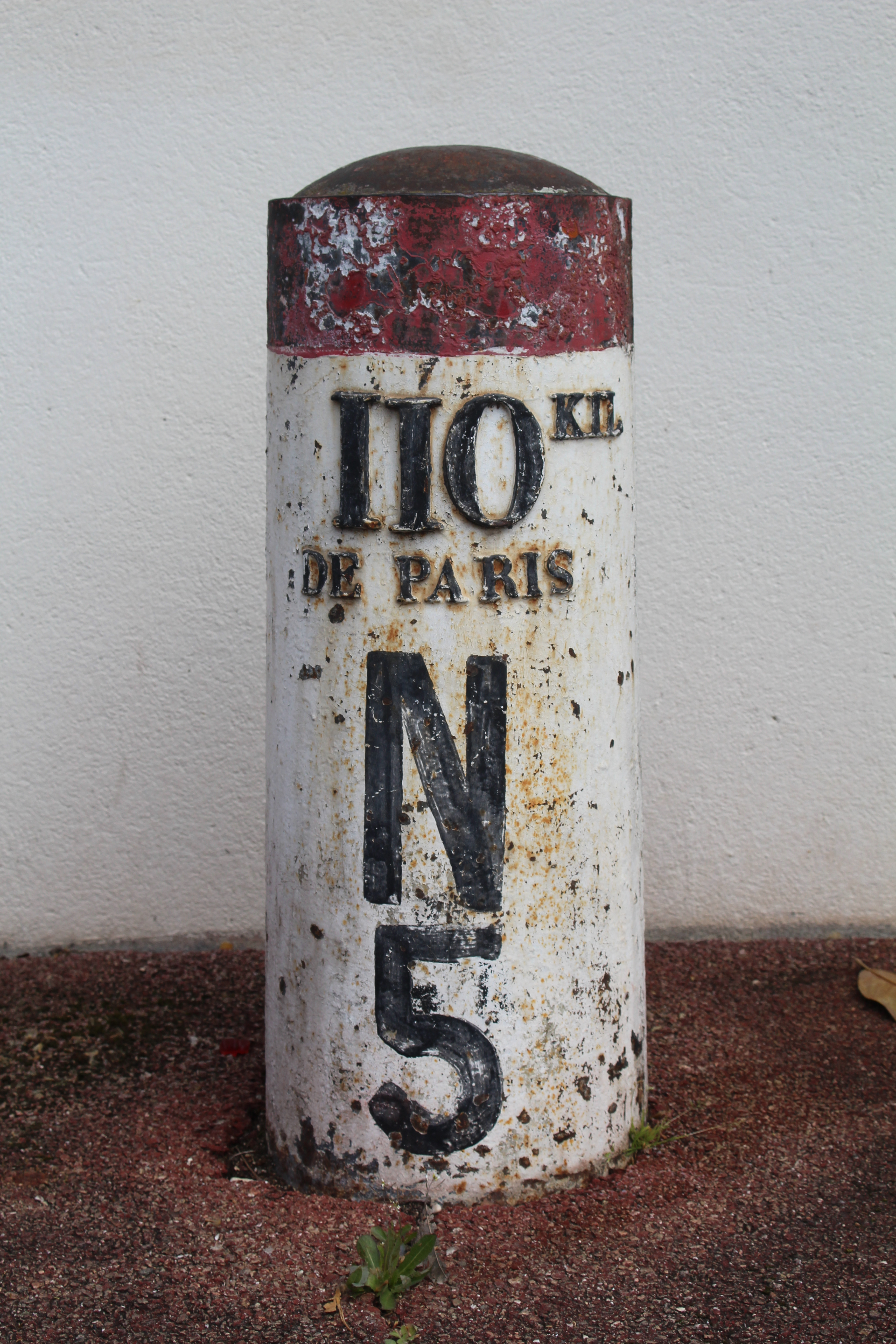 Odometer 110 on the Nationale 5 road at Sens, France.